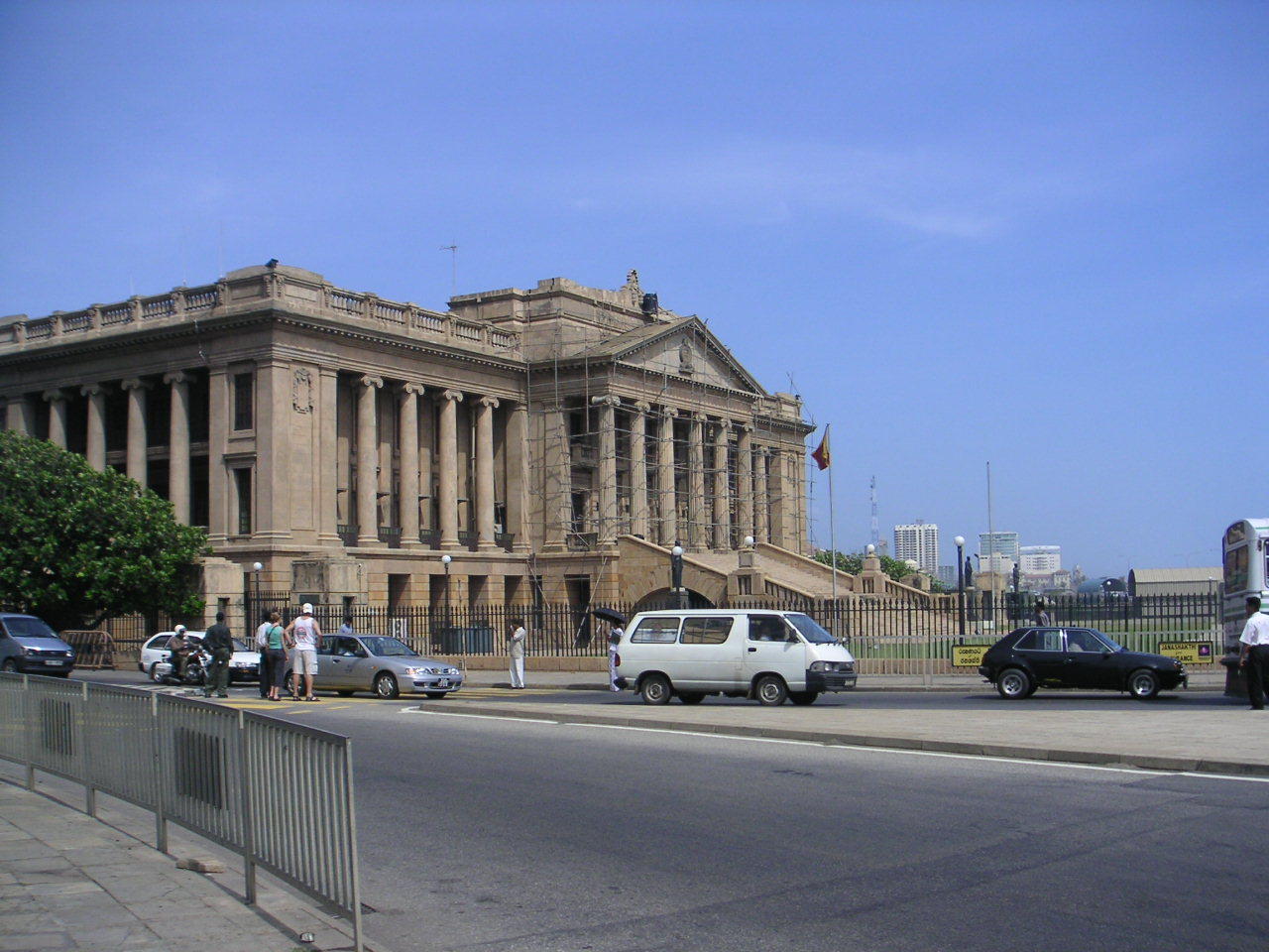 Colombo. Photo: Soman